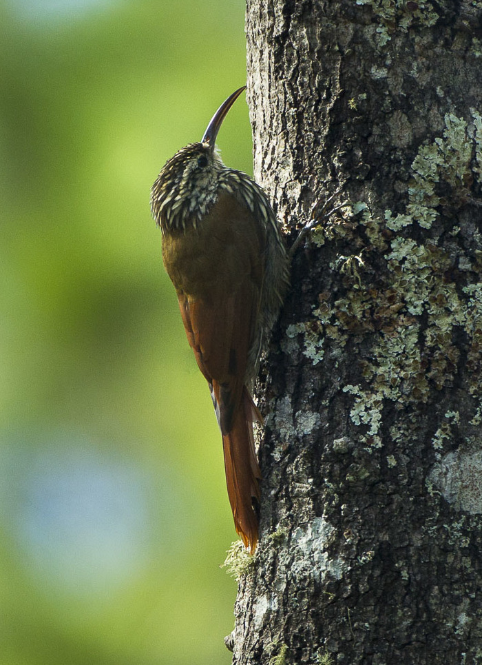 White-striped Woodcreeper - Sinaloa - Mexico_S4E0871